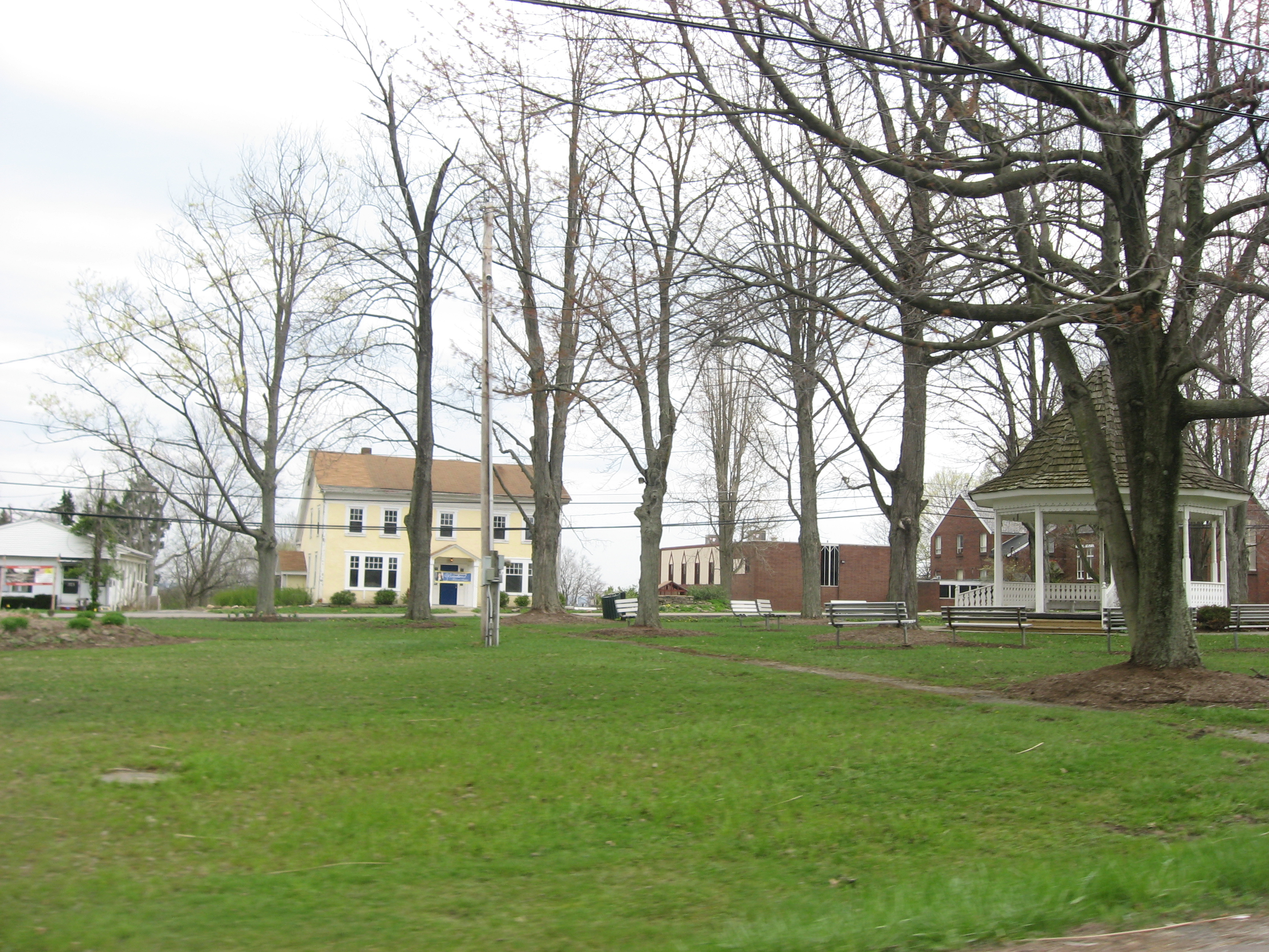 A gazebo on the village green at Brookfield Center in Brookfield Township, Trumbull County, Ohio, United States. The green, gazebo, and surrounding buildings compose the Brookfield Center Historic District, a historic district that is listed on the National Register of Historic Places.